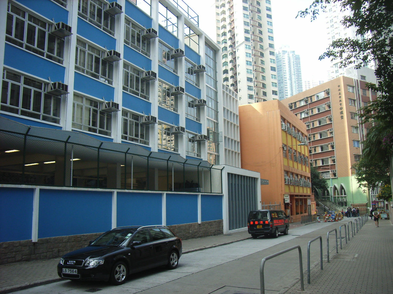 Bridge Street, Sheung Wan, Hong Kong (Photographer & author: User:BITBITSW).